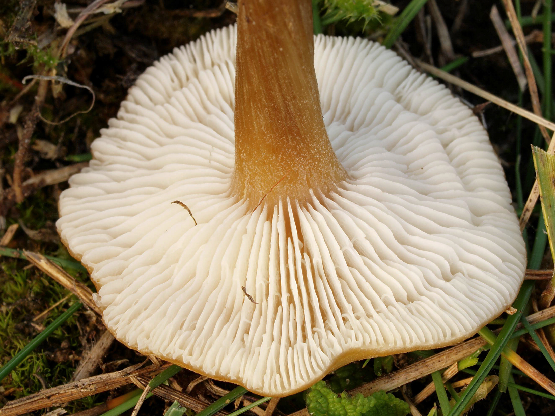 Melanoleuca leucophylloides